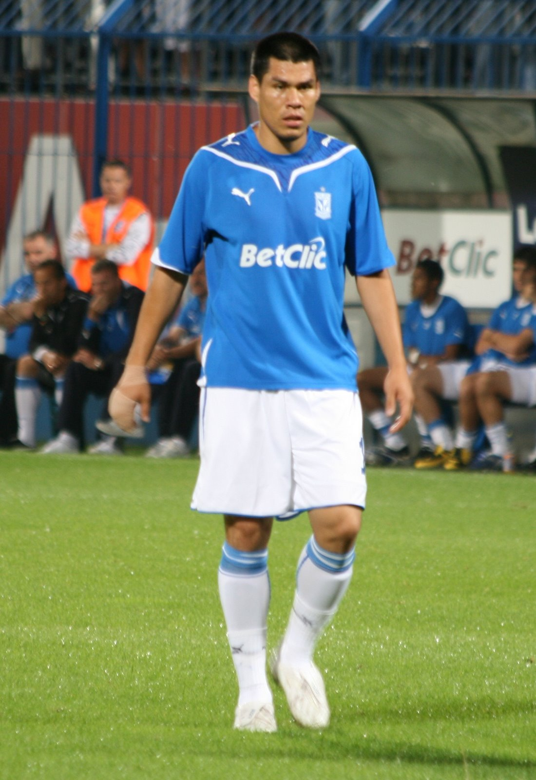 Peruvian football player Hernán Rengifo Trigoso during Europa League qualifications match KKS Lech Poznań - Club Brugge KV